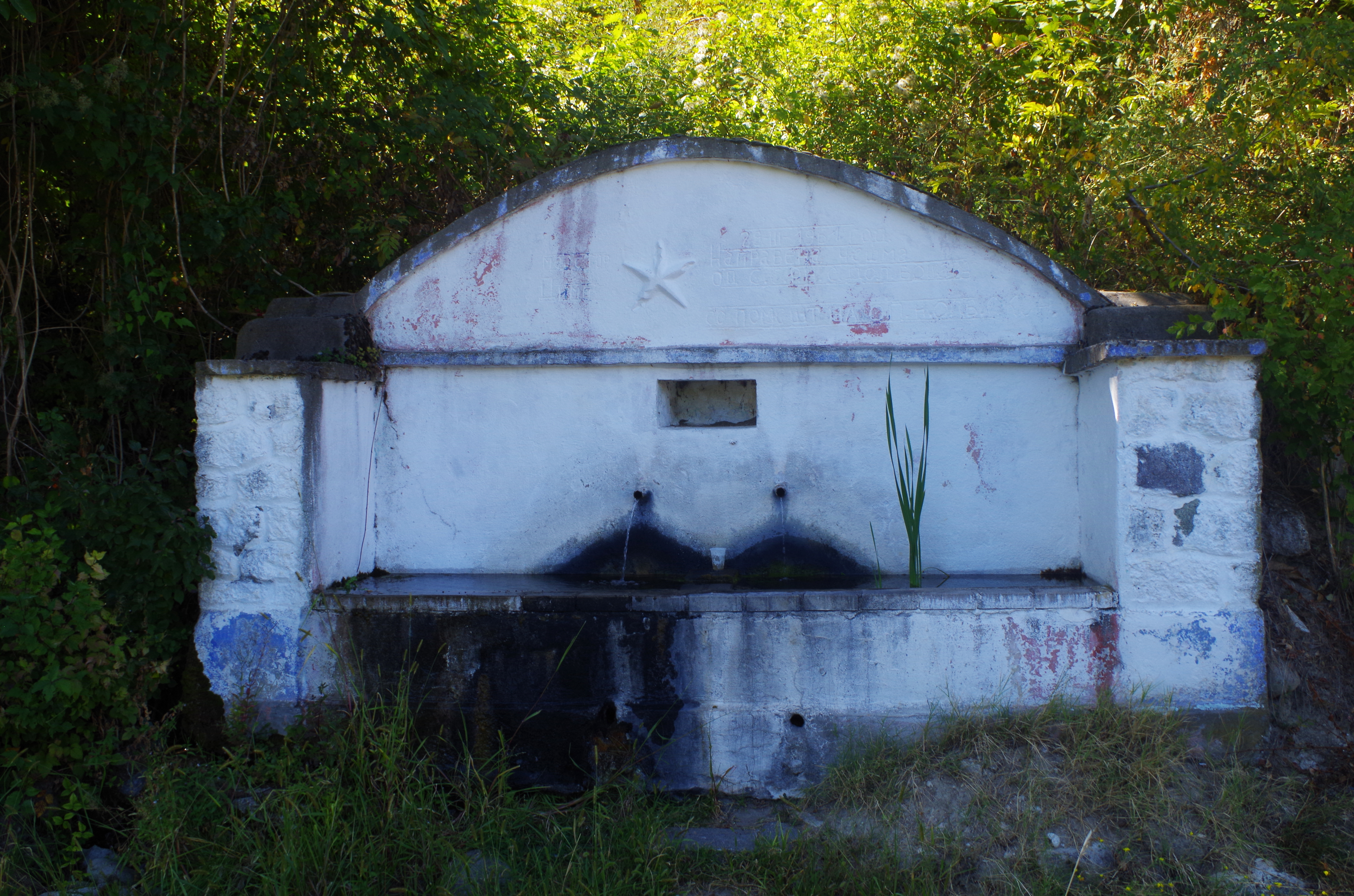 Village pump in the village of Dolna Bošava